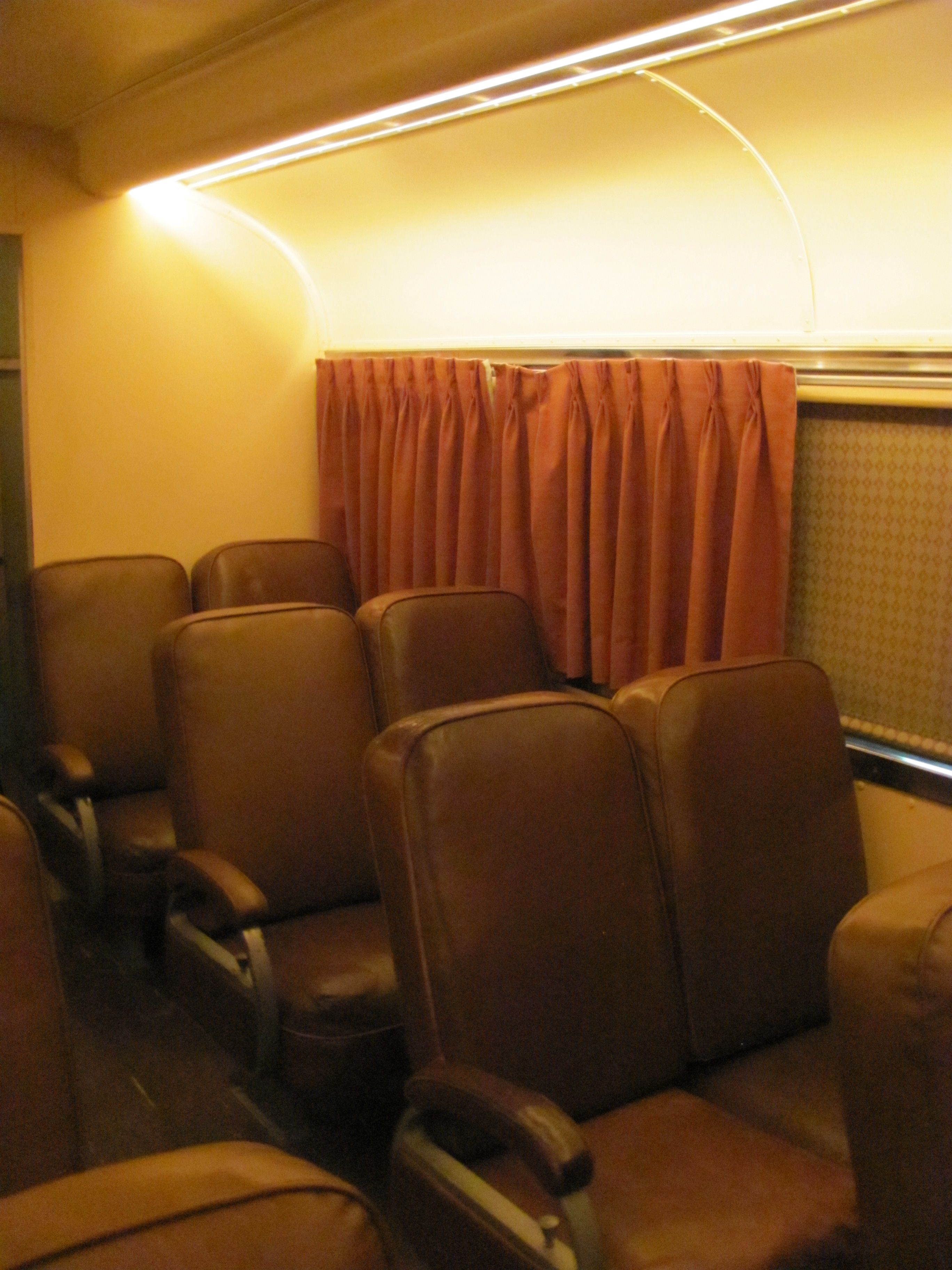 Burlington Zephyr in th Museum of Technic and Industry, Chicago: coach